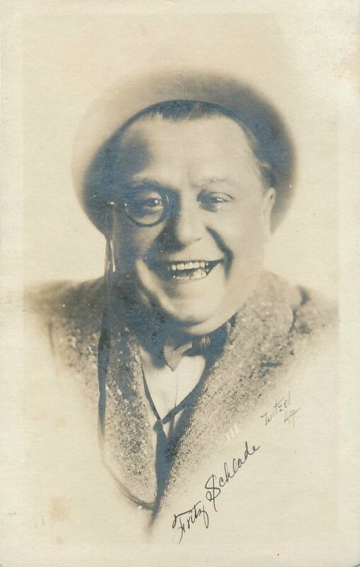 Portrait of German-American actor Fritz Schade (1880–1926) by Albert Witzel (Witzel Studios, LA)